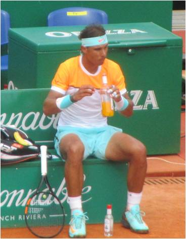 Rafael Nadal Monte Carlo Semifinal 2015 on 18 April 2015